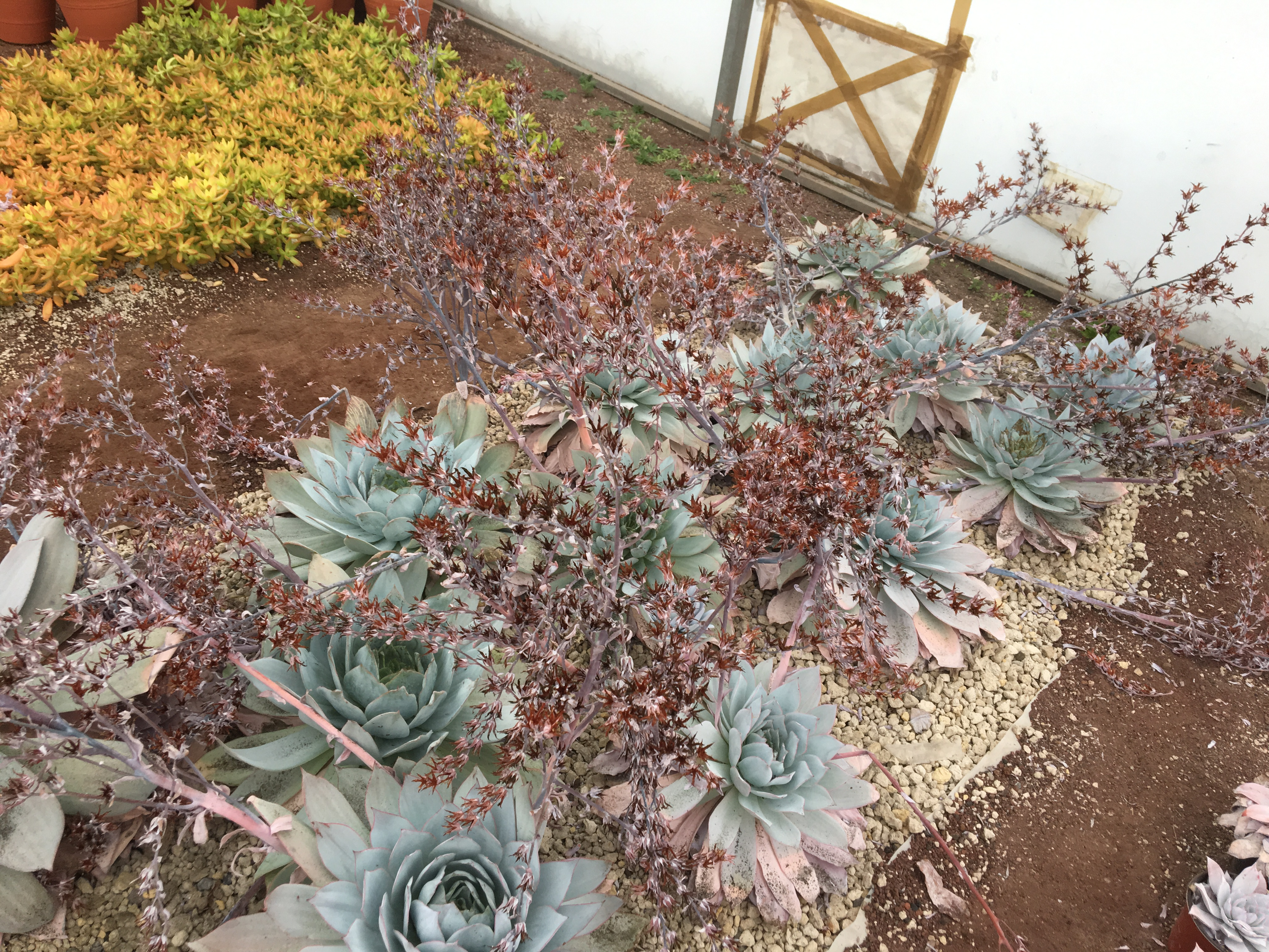 Echeveria cante